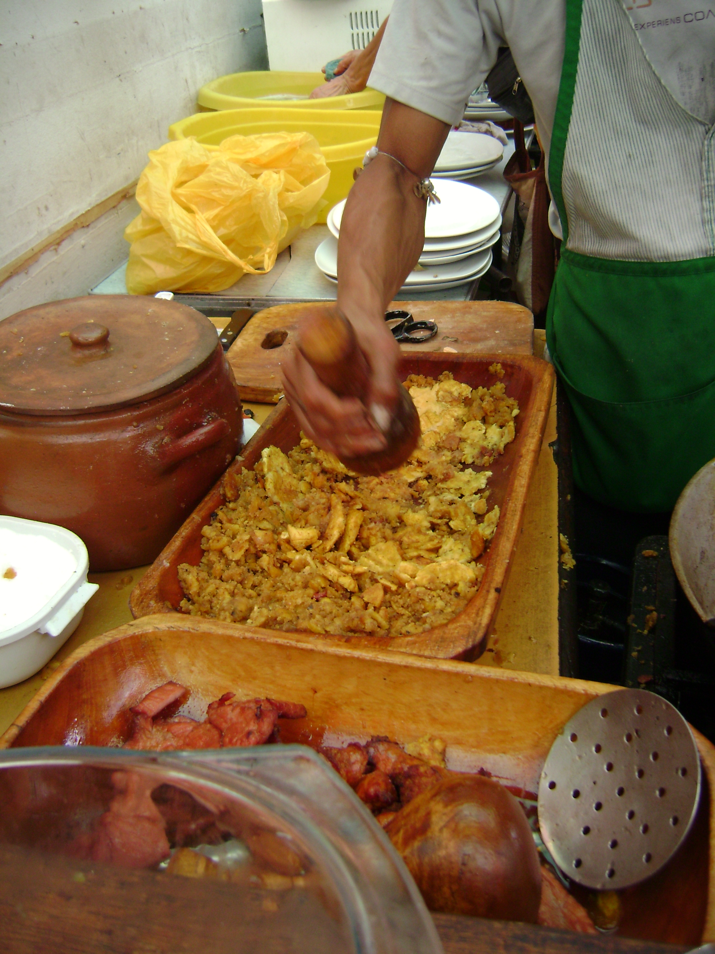 A guy is smashing yuca, banana and cecina to make 'Tacacho'.